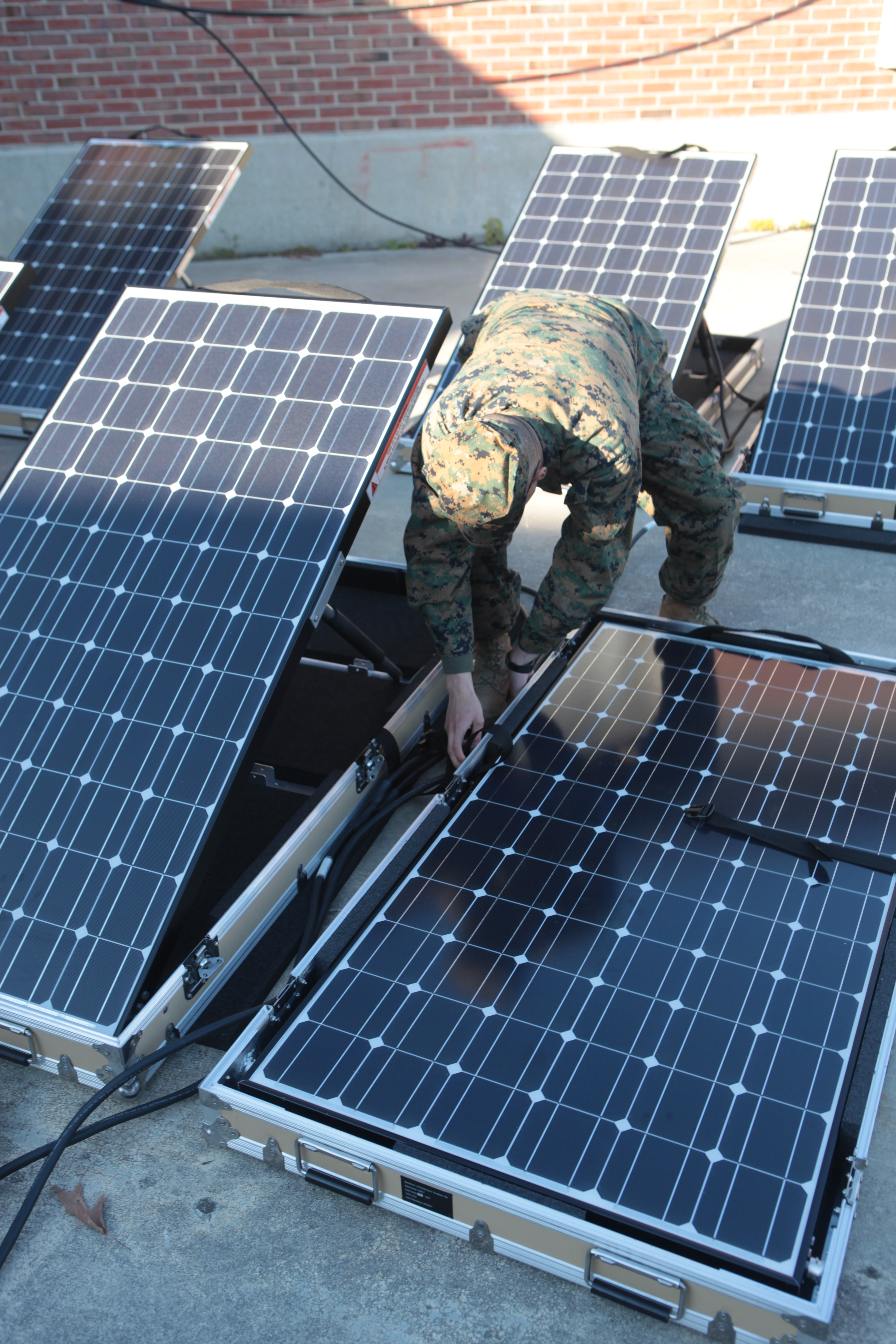 A Marine safely stows a solar panel after a day of drawing in the suns thermal energy and converting it into useable power via a Ground Renewable Expeditionary Energy Network System. After being collected by the solar panels, the energy passes through a control box, where a GREENS system operator can charge up to four lithium batteries at a time.